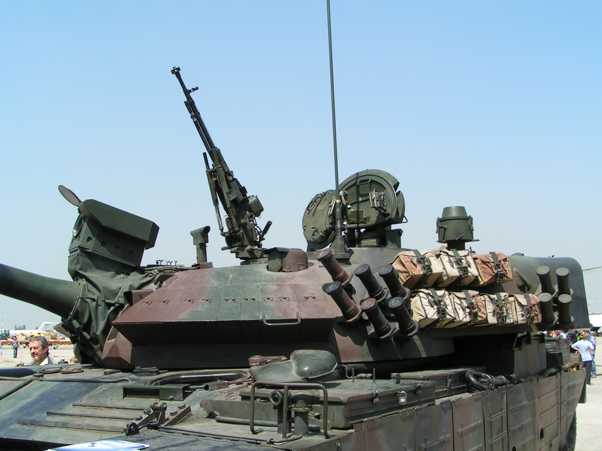 Photo of a Romanian TR-85 main battle tank on the Black Sea Defense & Aerospace 2007 in Bucharest, Romania.